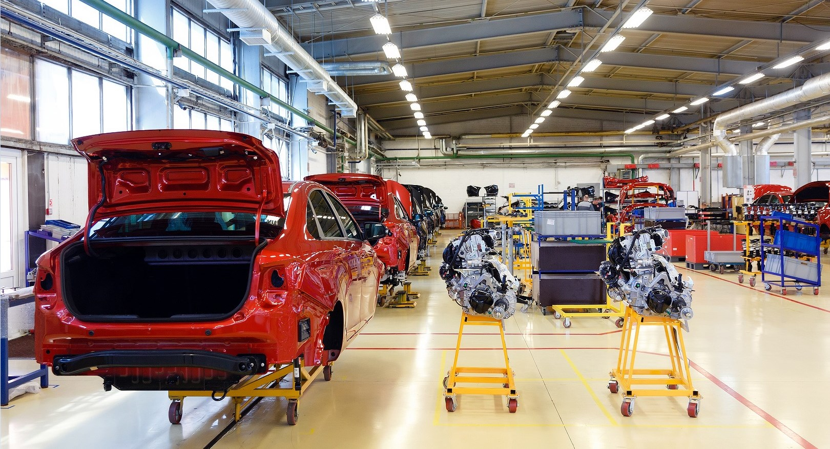 LADA Sport factory, LADA Vesta Sport